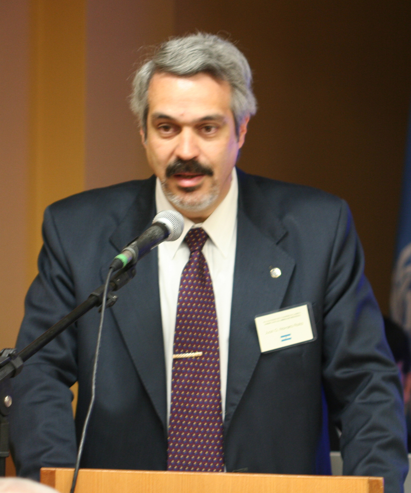 Prof. Juan G. Navarro Floria